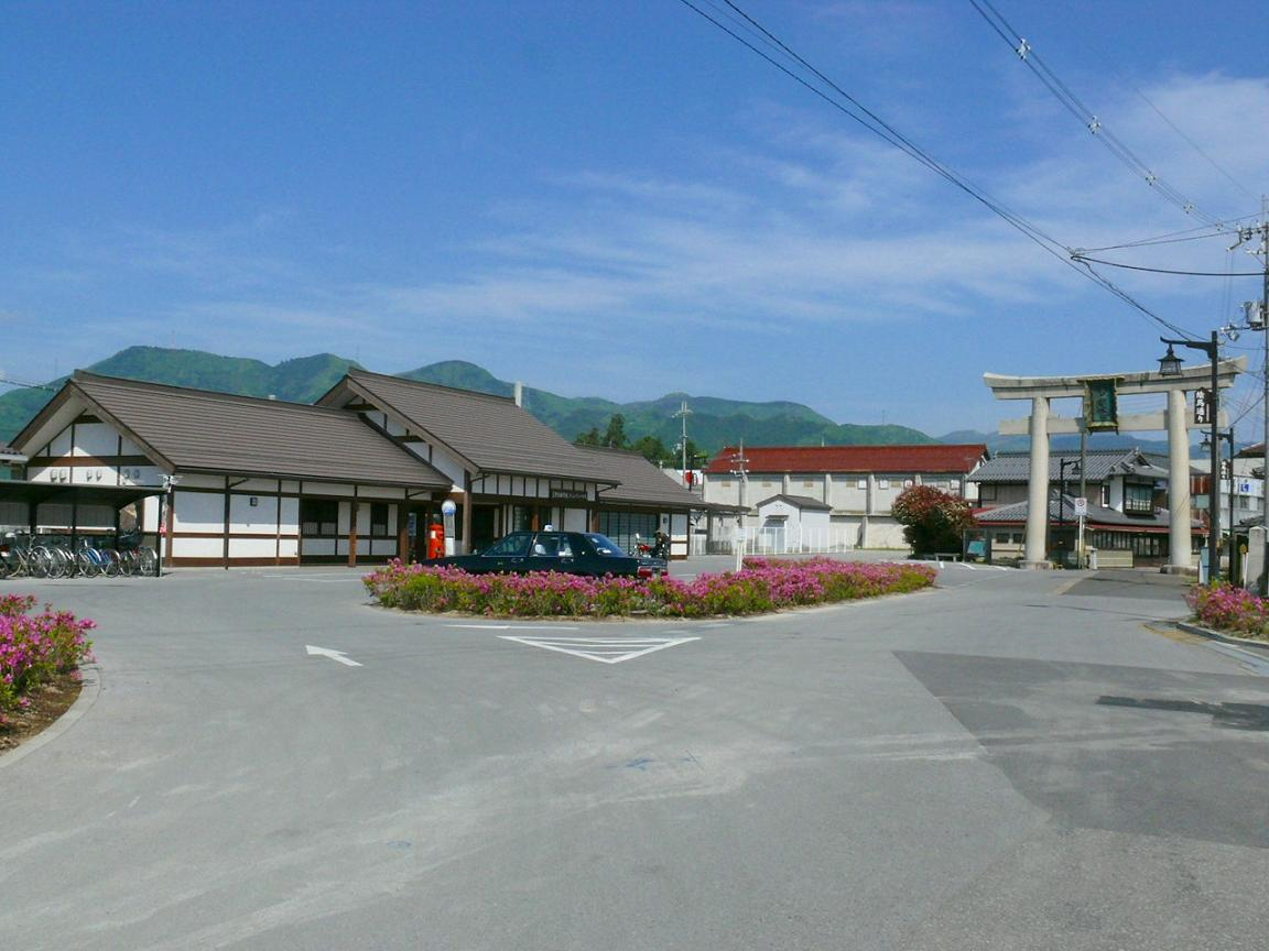 Ohmi Railway Taga Line Taga-Taishamae Station.